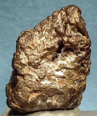 Domeykite, Algodonite Locality: Cashin Mine, Montrose County, Colorado, USA (Locality at ) Size: 2.5 x 2.3 x 1.9 cm. Domeykite and algodonite are rare copper, arsenic alloys and alloy-like compounds. This is an EXCELLENT, complete all-around thumbnail specimen with super, copper patina and nice form from the famous Cashin Mine of Colorado. SELDOM do you see domeykite with algodonite crystals in this sharpness. Rare, old-time material in this quality from the Carl Davis Collection.